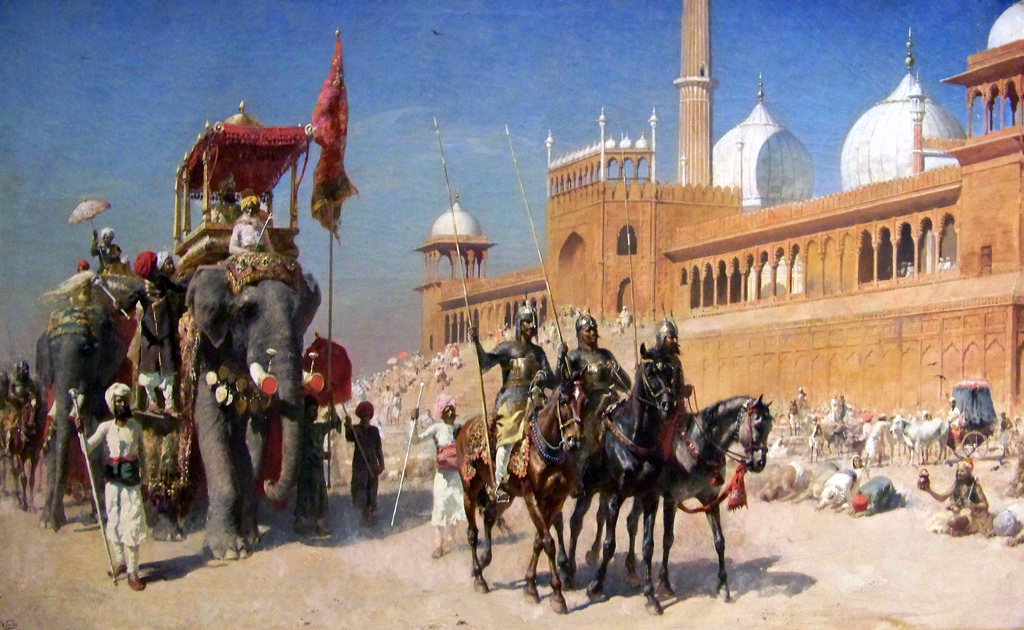 Great Mogul And His Court Returning From The Great Mosque At Delhi India - Oil Painting by American Artist Edwin Lord Weeks; 33 5/8 x 54 1/4 inches. Portland Museum of Art, Maine, 1918.1.